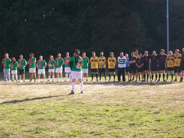 First journey of the Liga Gallaecia, national galician league of gaelic football. Nadela (Lugo, Galicia), 5th october 2013.